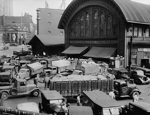 Toronto Wholesale Fruit Market, corner of Yonge and Esplanade Streets (Toronto, Canada)